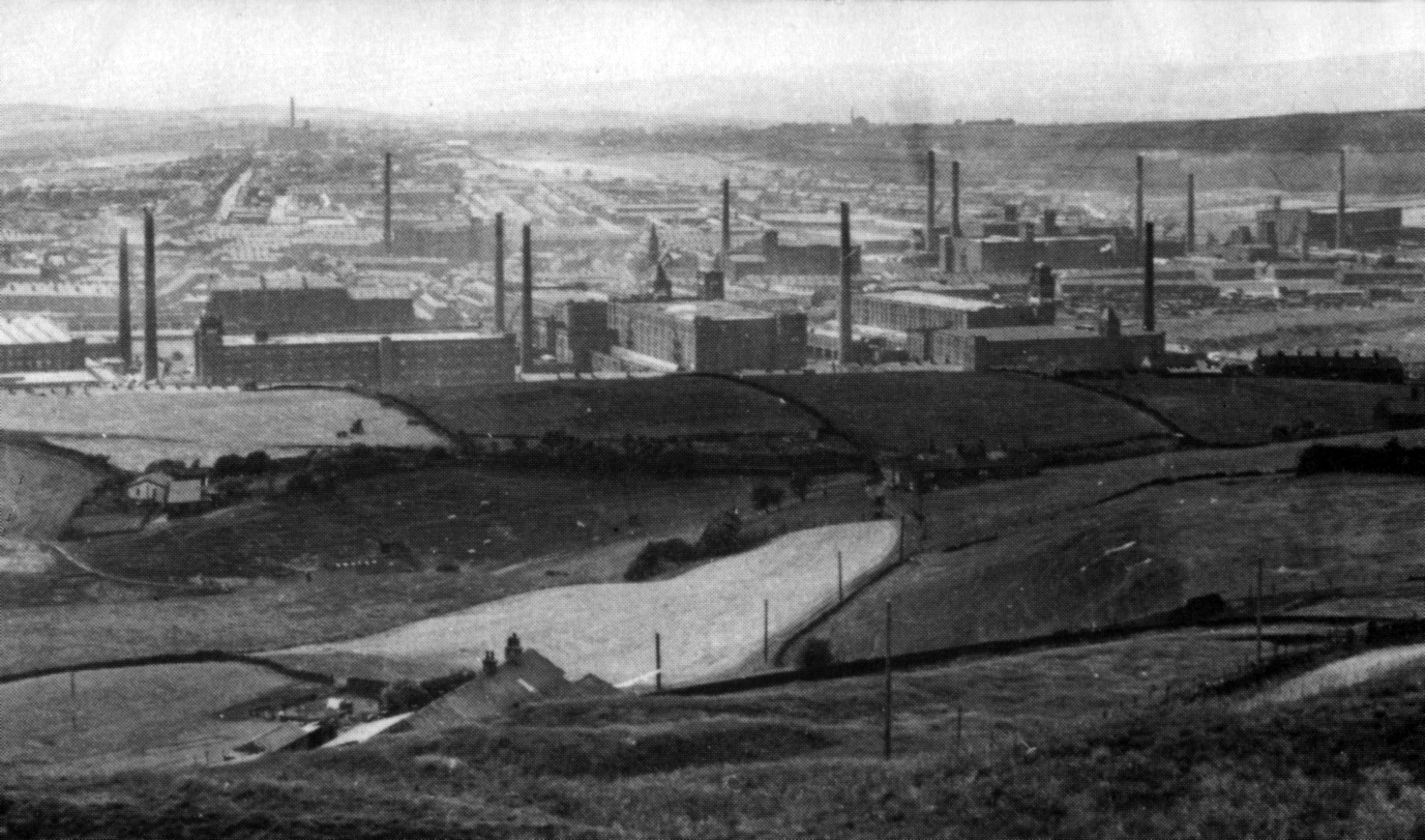 The former industrial townscape of Crompton from the east, then in Lancashire, now in Greater Manchester, England.